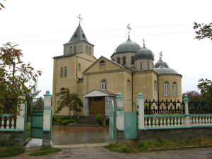 церковь г. Каспийск